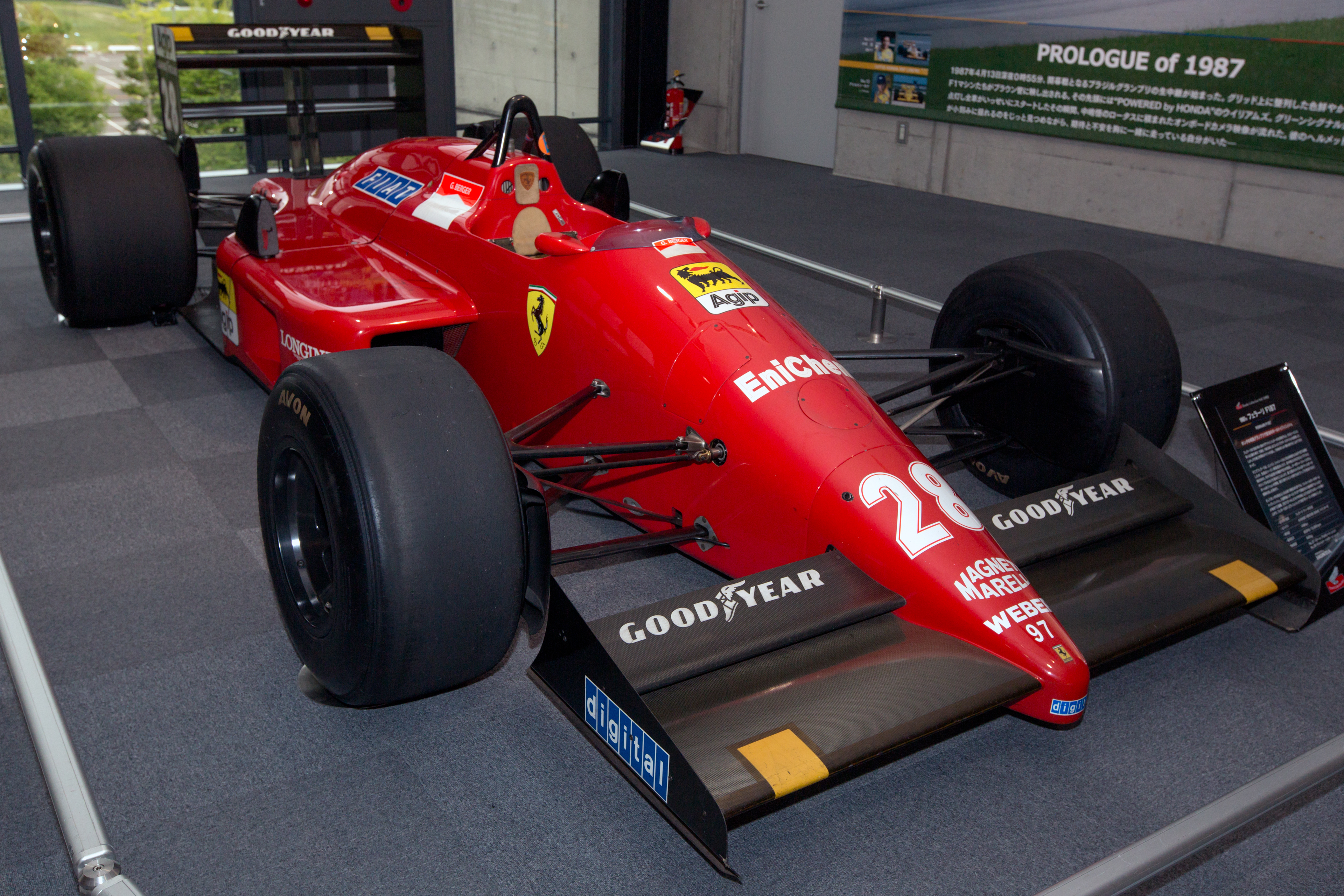 1987 Ferrari F1/87